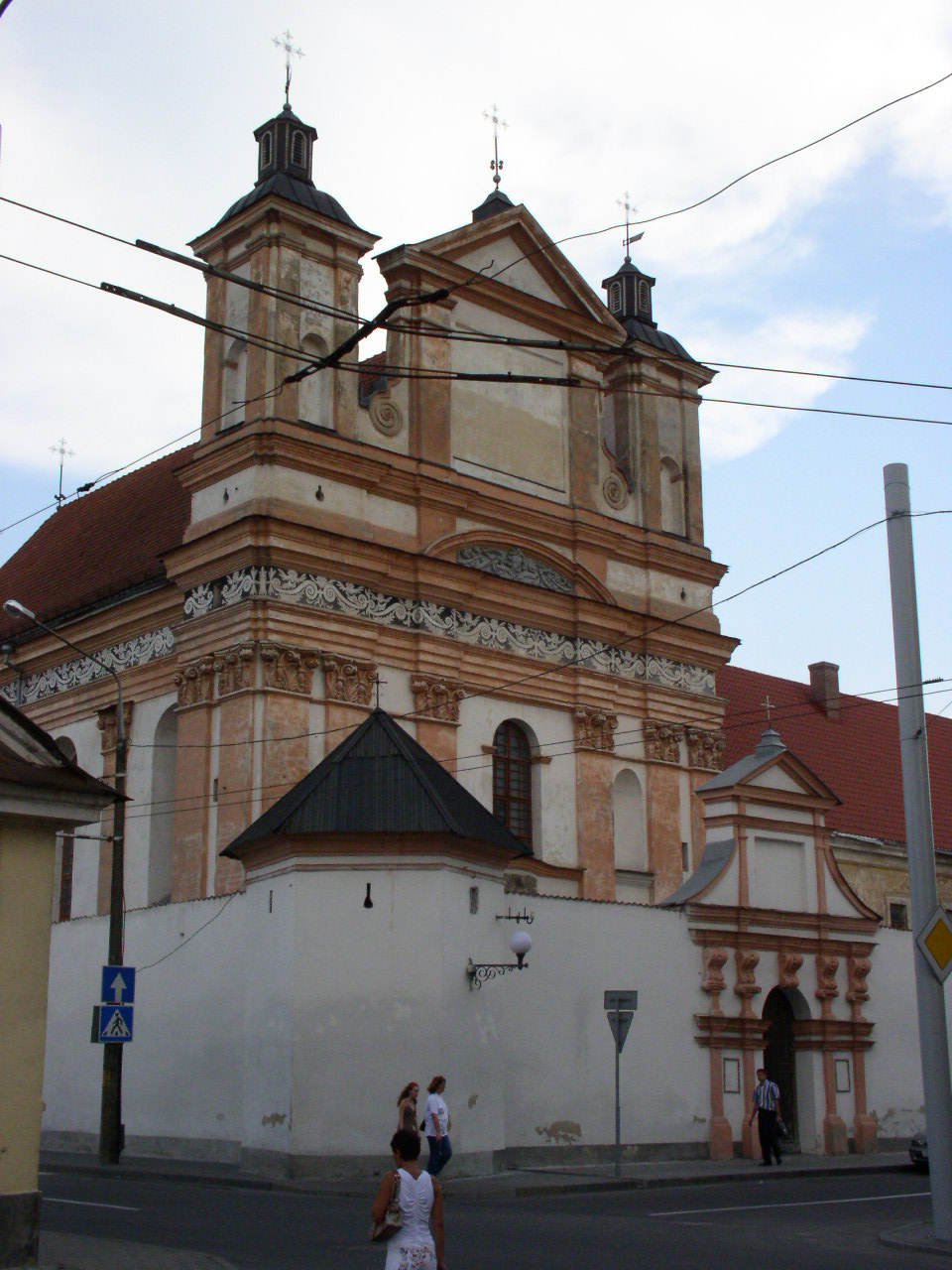 Church of the Annunciation of the Virgin Mary. Hrodna, Belarus.